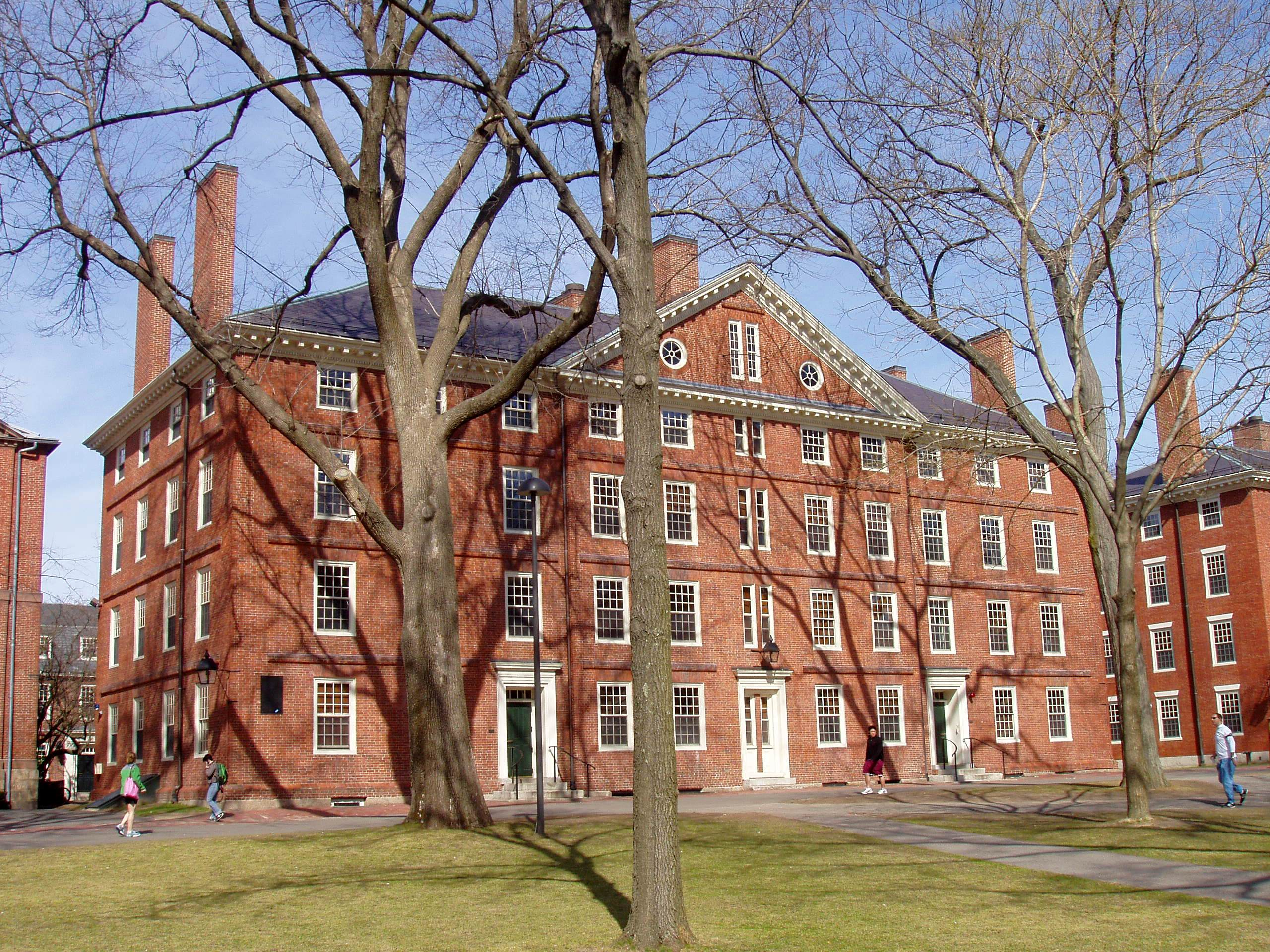 Hollis Hall, Harvard University, Cambridge, Massachusetts, USA.